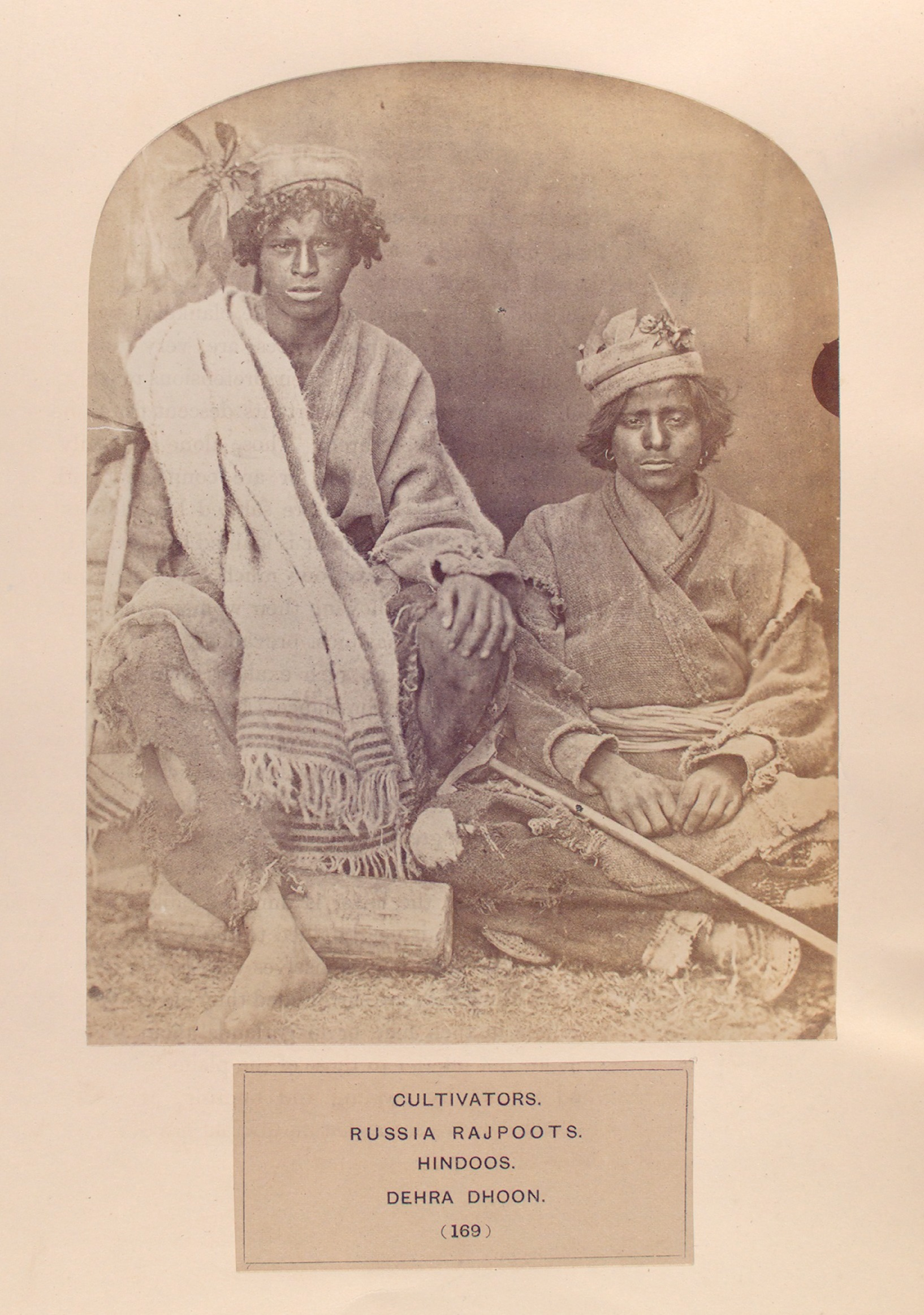 Letterpress label measures 40 x 85 mm.